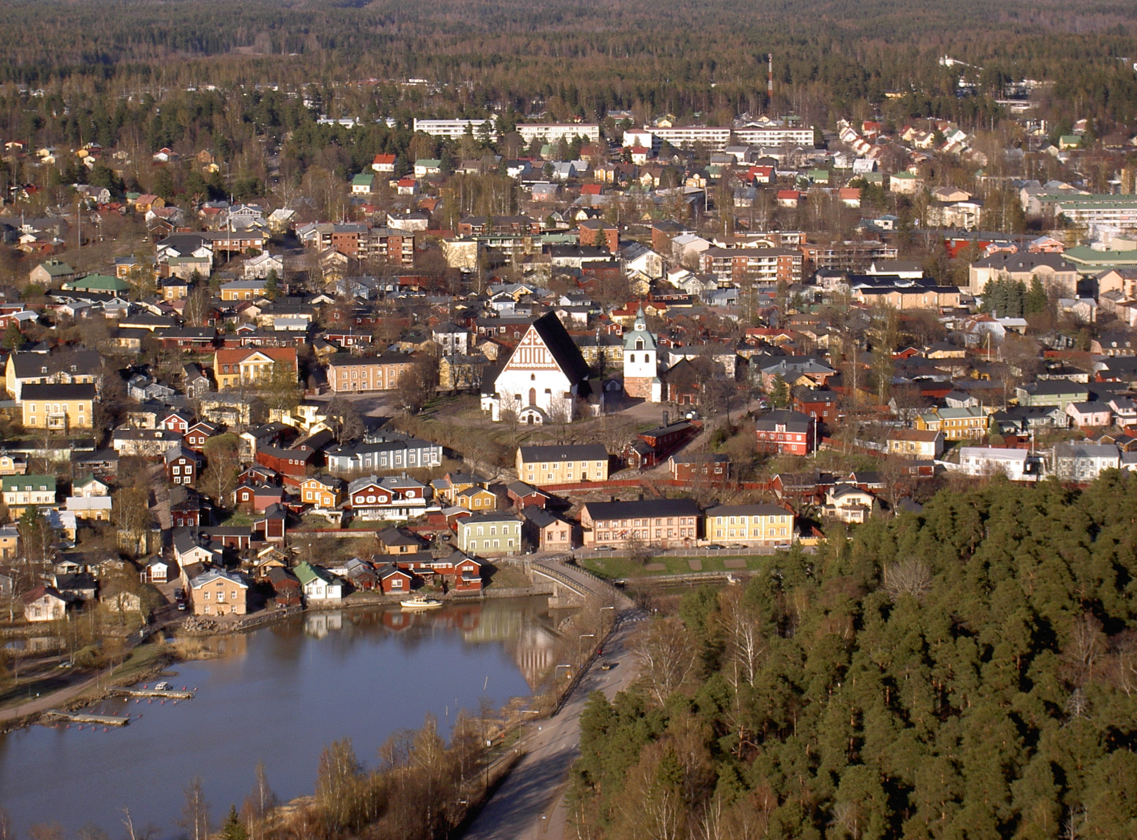 Porvoo old town viewed from a hotair balloon